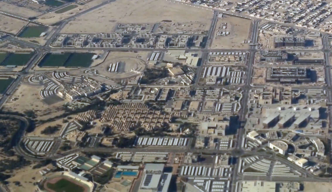 Aerial view of the district of Al Tarfa and the Qatar University Campus in Doha.